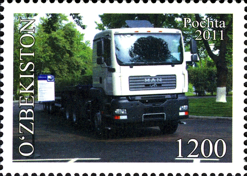 Stamps of Uzbekistan, 2011